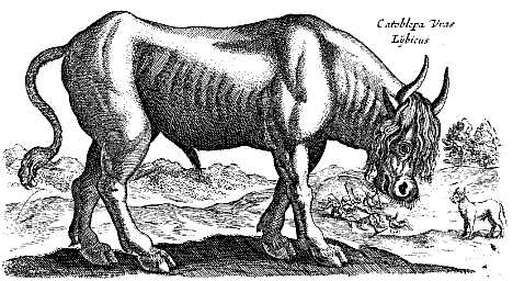 Catoblepas, from Jan Jonston, Historiae naturalis de quadrupedibus libri, cum aeneis figuris, Johannes Jonstonus,... concinnavit (J. J. Schipperi, Amsterdam, 1657).